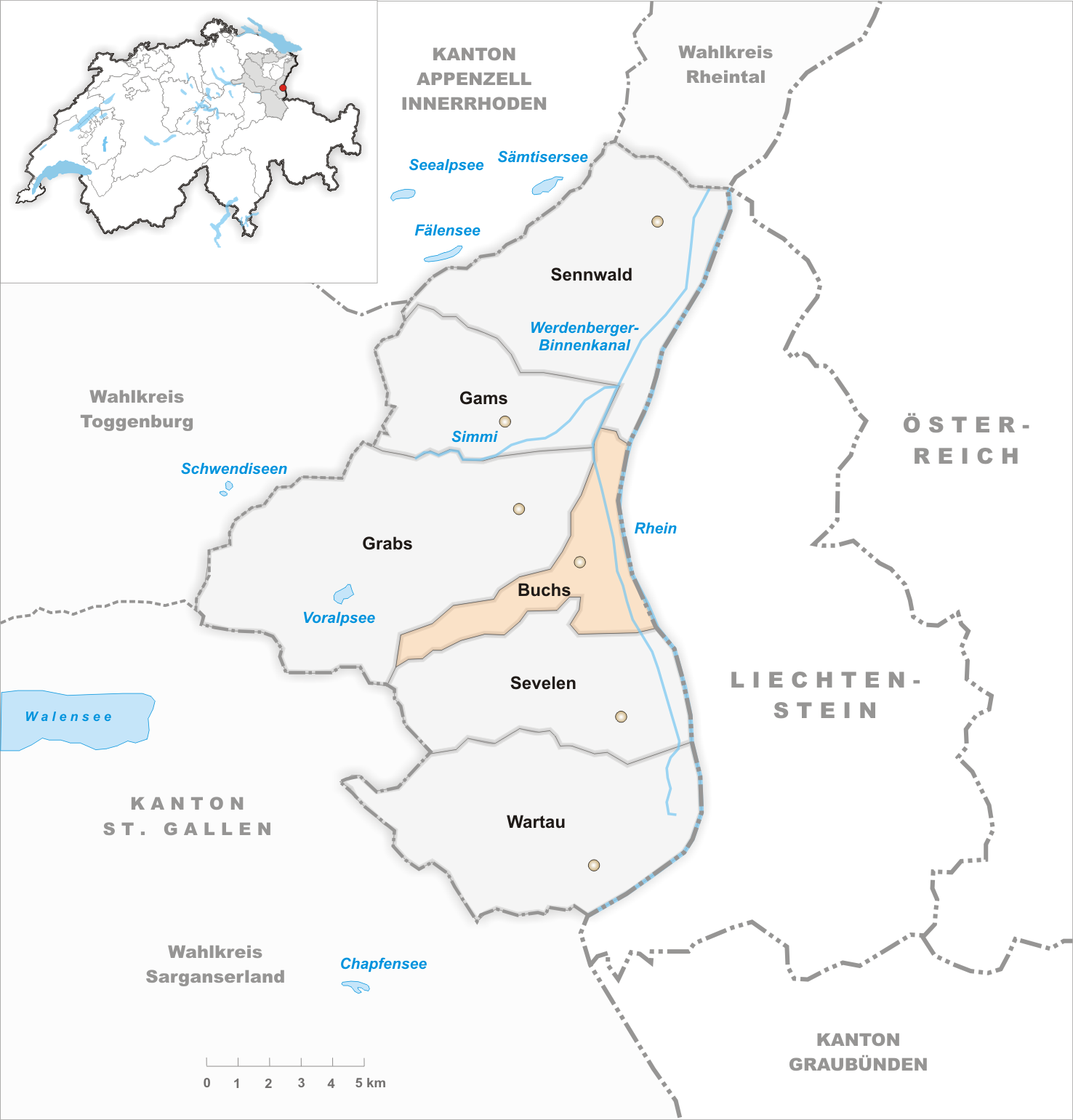 Municipality Buchs